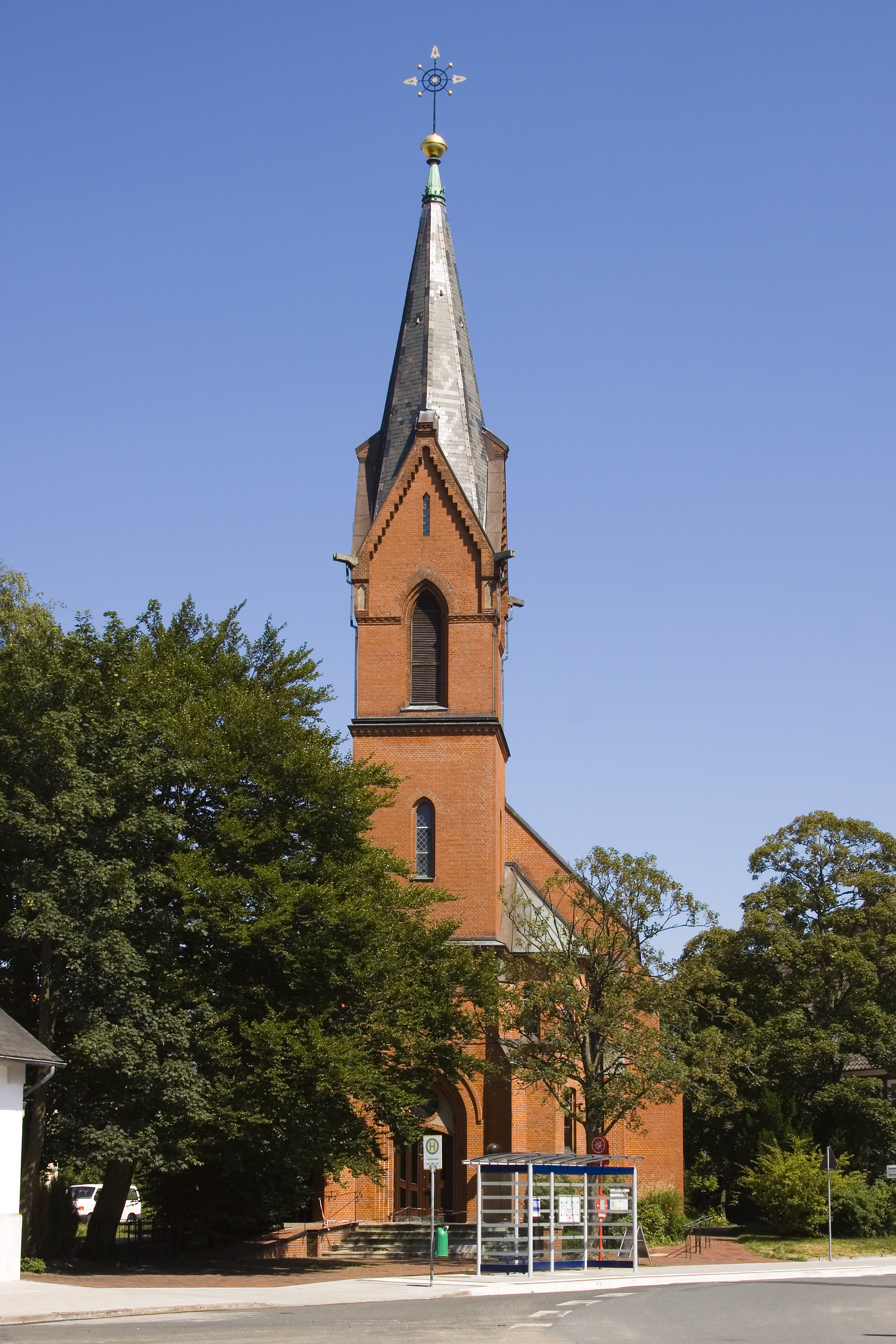 church "Herz Jesu" in Cuxhaven